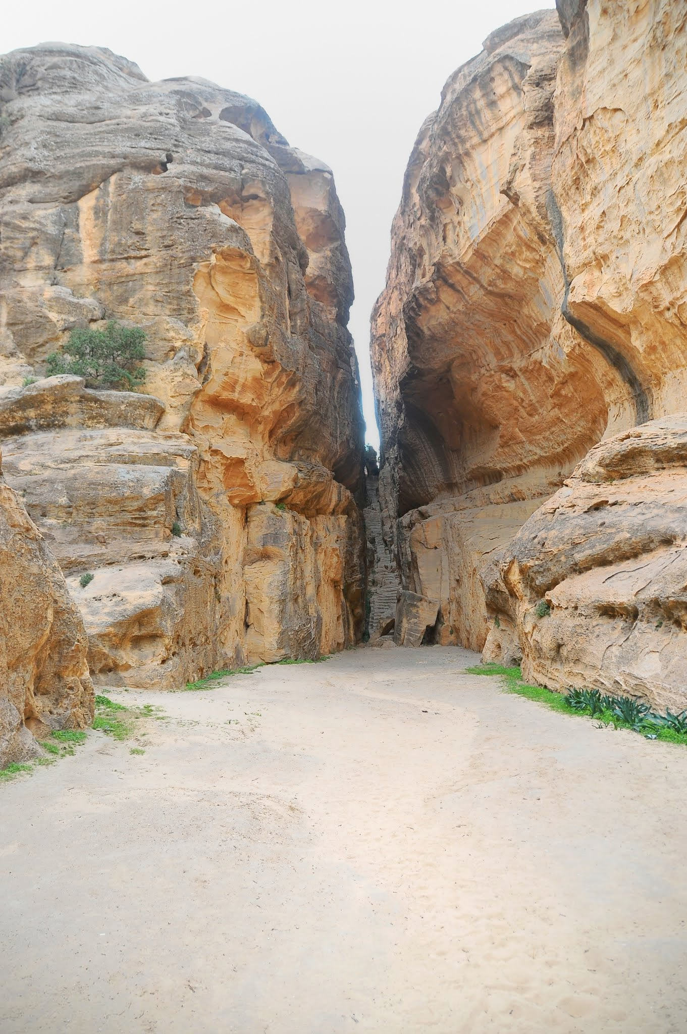 Little Petra Canyon Trail - Go through This Narrow Passage to Start the Trail